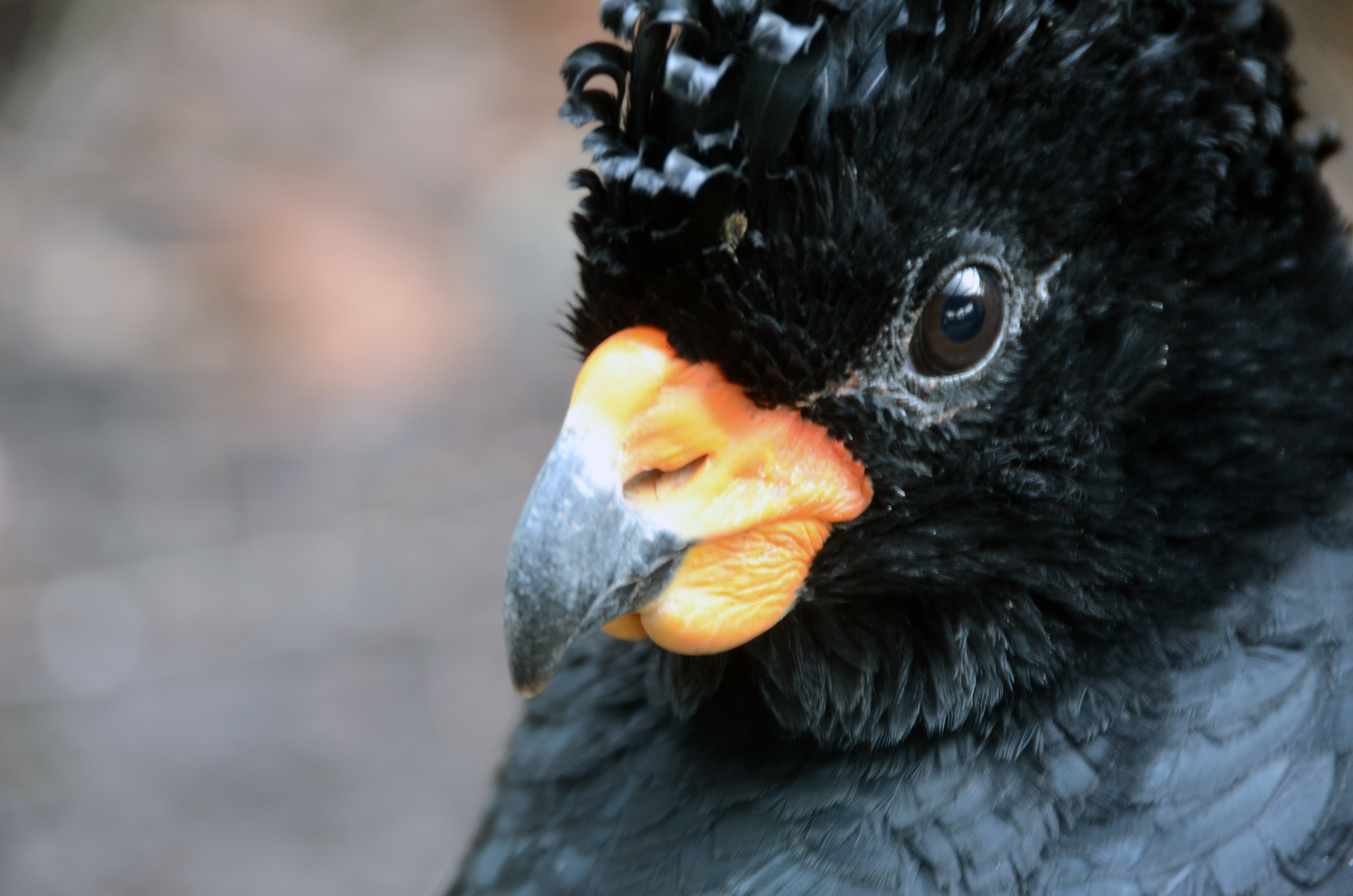 A male Red-knobbed Curassow at Chester Zoo, England.